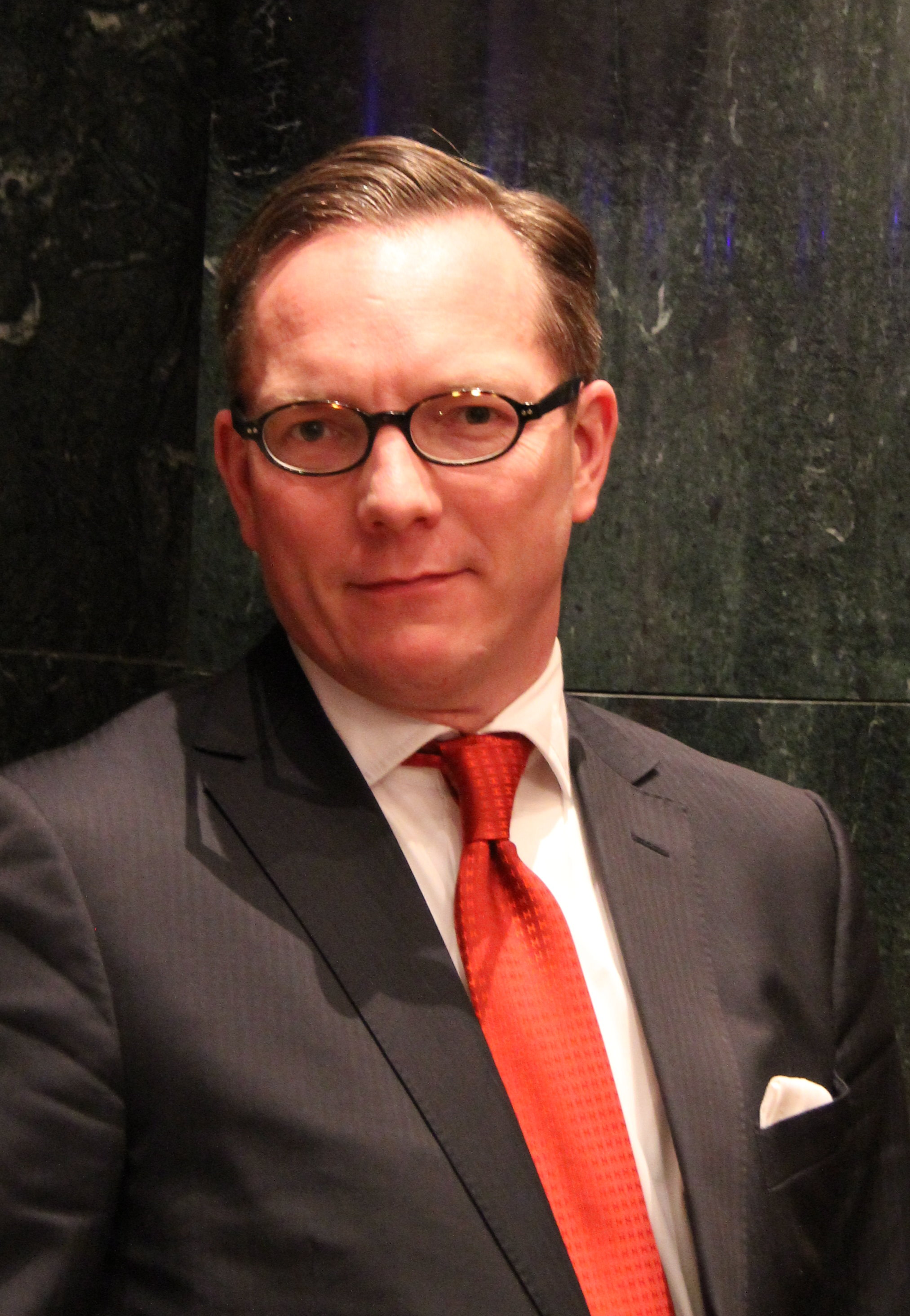 Dr. Marcel Hattendorf, business consultant